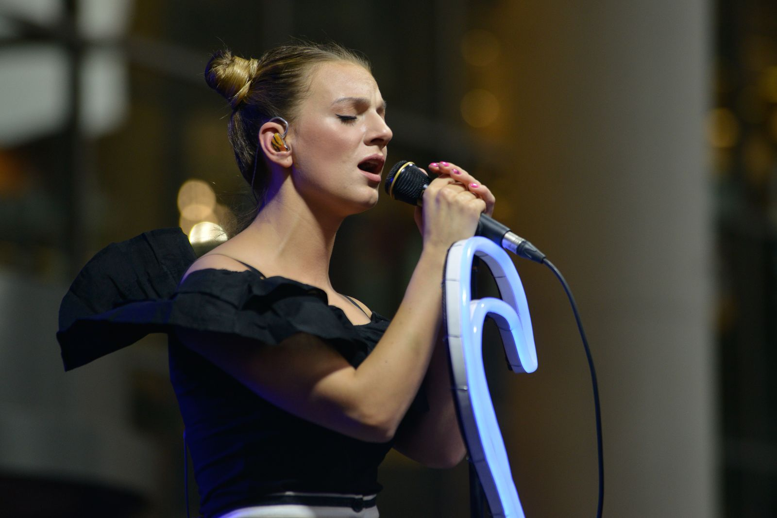 Vocalist Sarsa, Marta Markiewicz during show in Bielsko-Biala, Poland, music photography